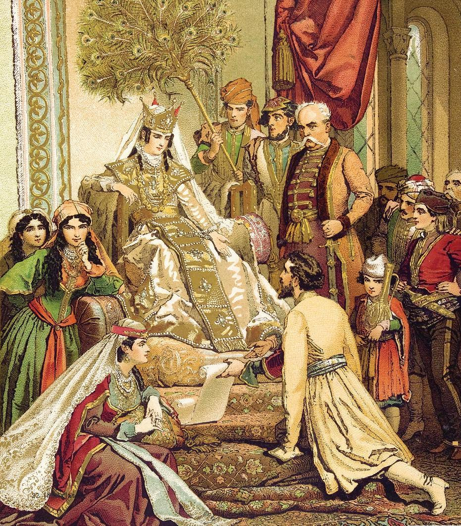 "Shota Rustaveli presents his poem to Queen Tamar". Painted in Tbilisi